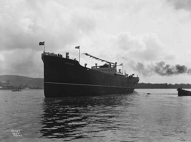 The cargo ship MS Fernglen shortly after being launched at Akers Mekaniske Verksted, Oslo, Norway.